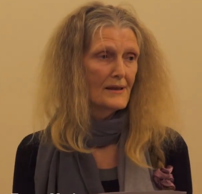 Featuring a mesmerising, meditative performance of "Essence" by composer and clarinetist Ms Vicki Hallett, with highlights from evolutionary ecologist Dr Monica Gagliano, Augmented Reality artist Anna Madeleine, mycologist Dr Sapphire McMullan-Fisher and environmental philosopher Adjunct Professor Freya Mathews. Vicki's work is reproduced here with permission. A digest of Monica's presentation to the Royal Society of Victoria is available from Filmed and edited by Robert Cross, produced by the Royal Society of Victoria.